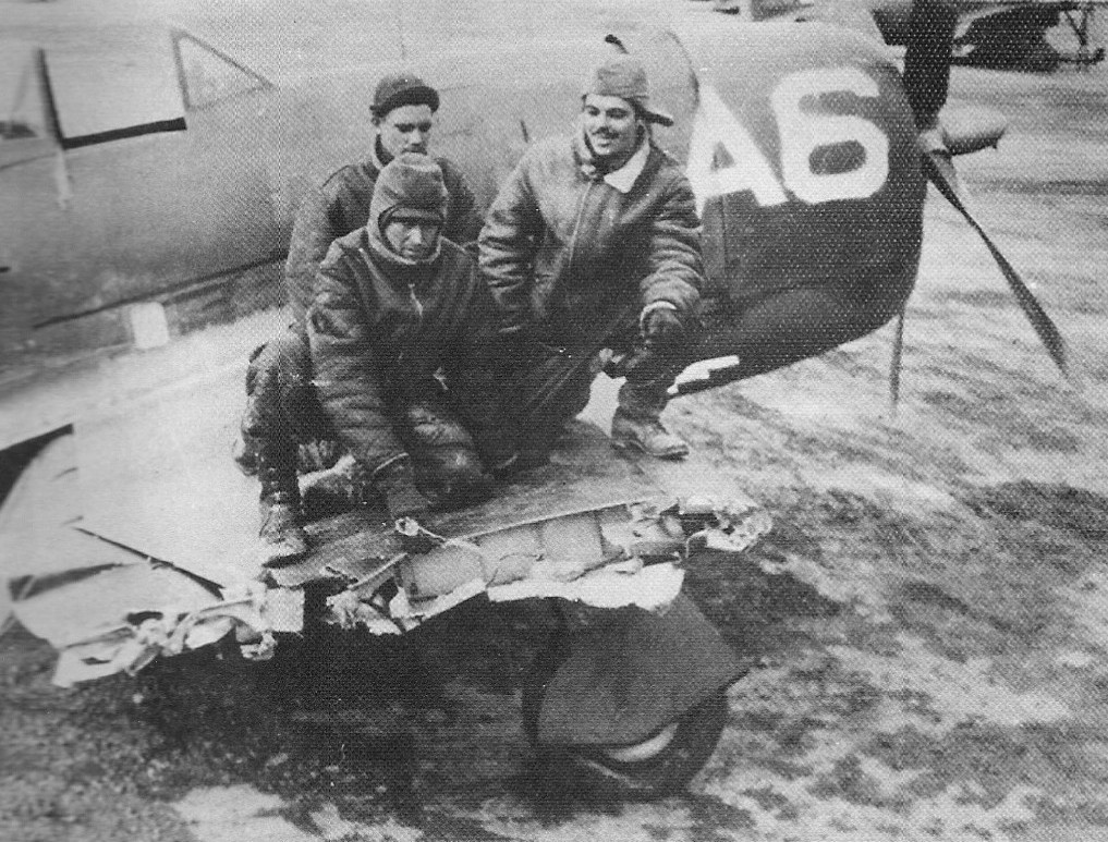 Brazilian P-47 after impact on with chimney